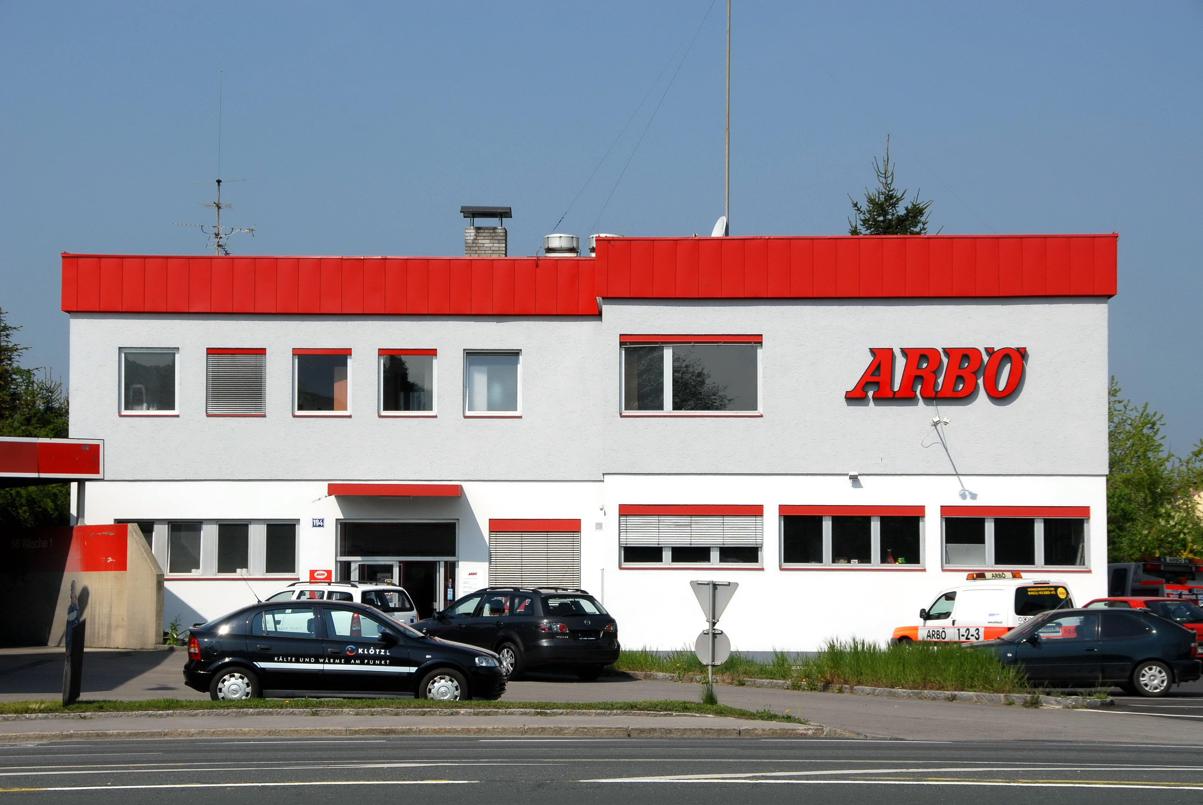 ARBOE car check center on the Rosentaler Street in the 12th district "Sankt Martin" of the capital Klagenfurt, Carinthia, Austria